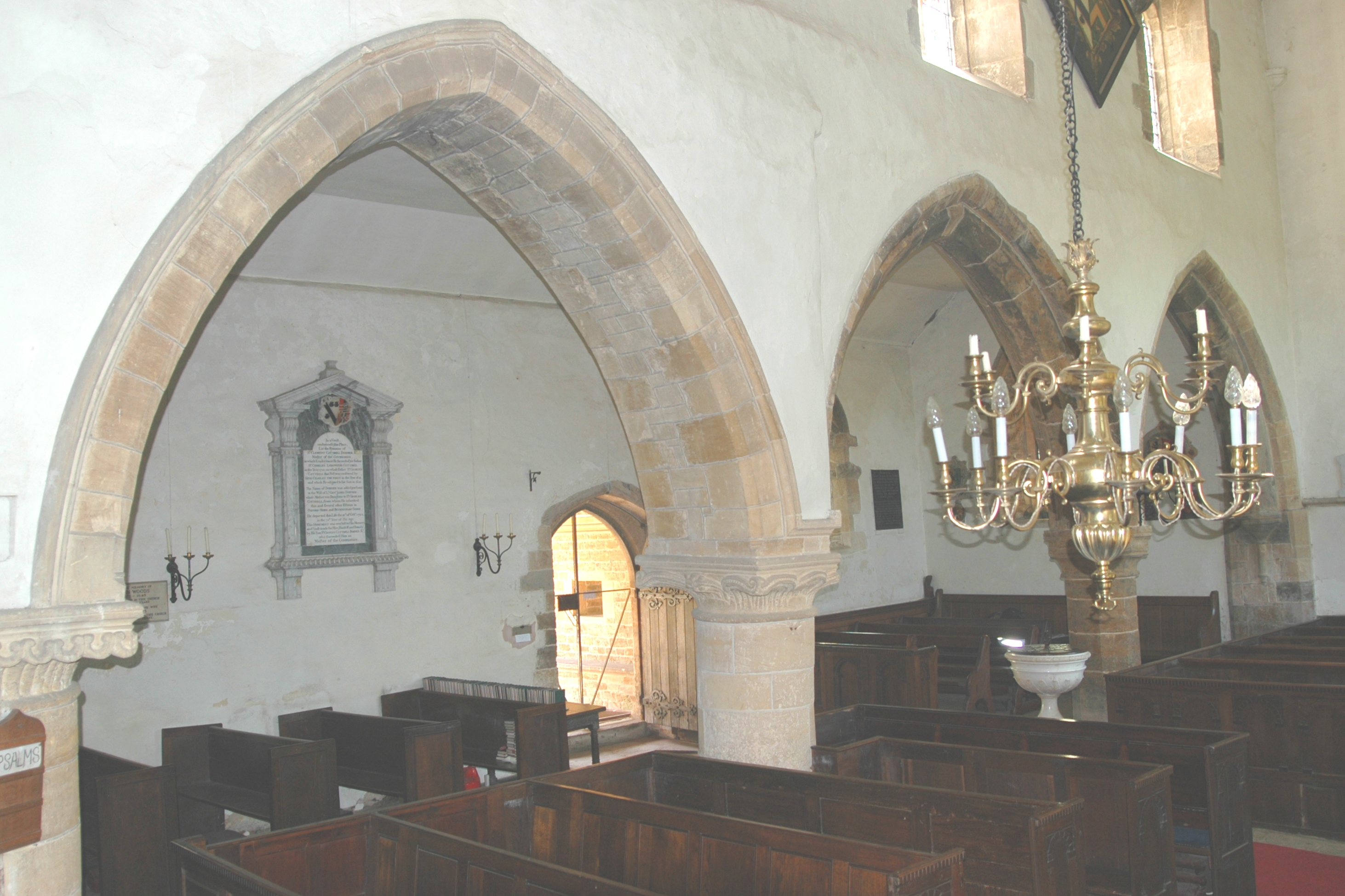 Church of England parish church of St Leonard & St James, Rousham, Oxfordshire: arcade of south aisle